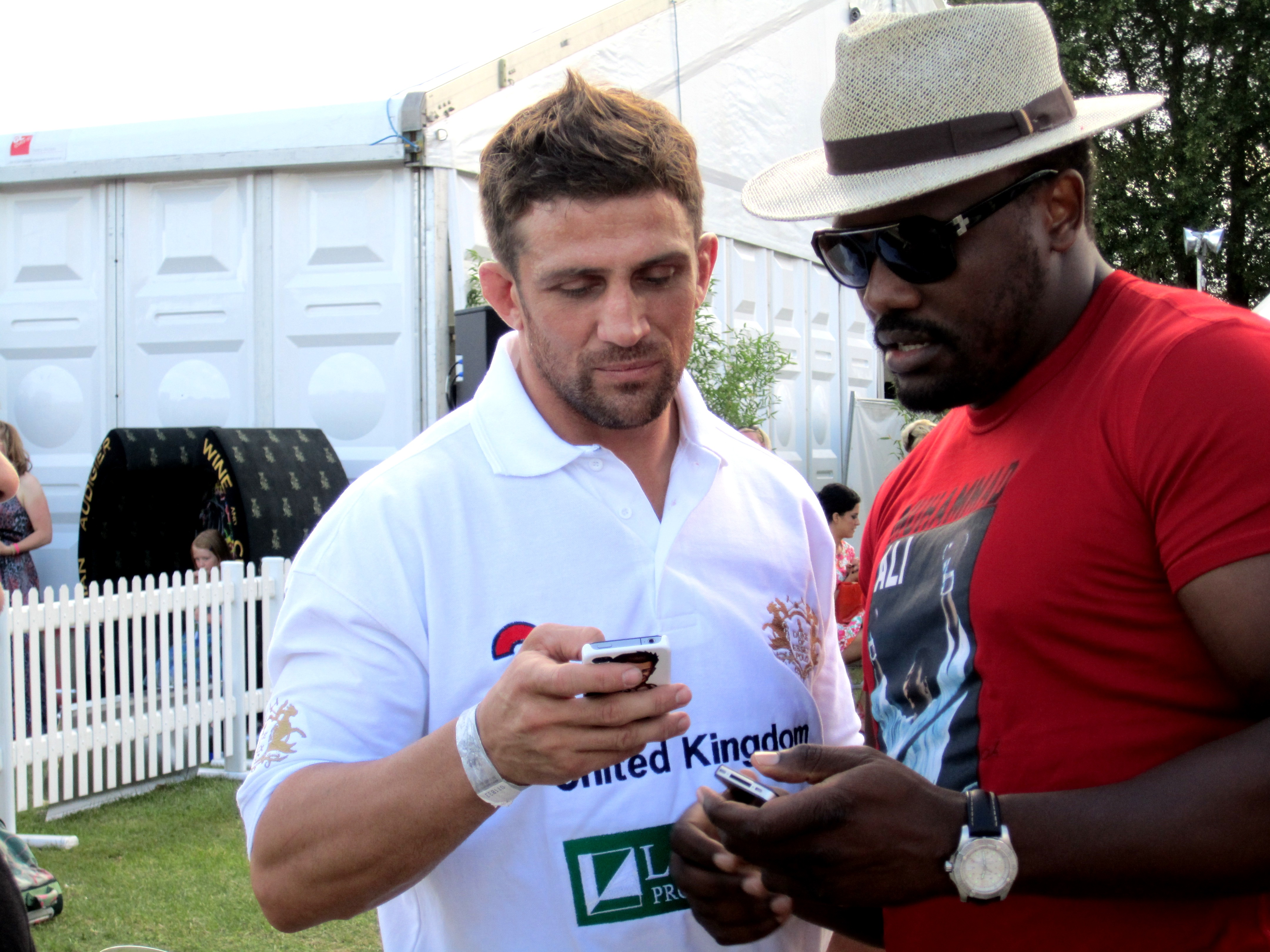 Alex Reid with a friend at the Duke of Essex Polo in Epping Forest, Kent